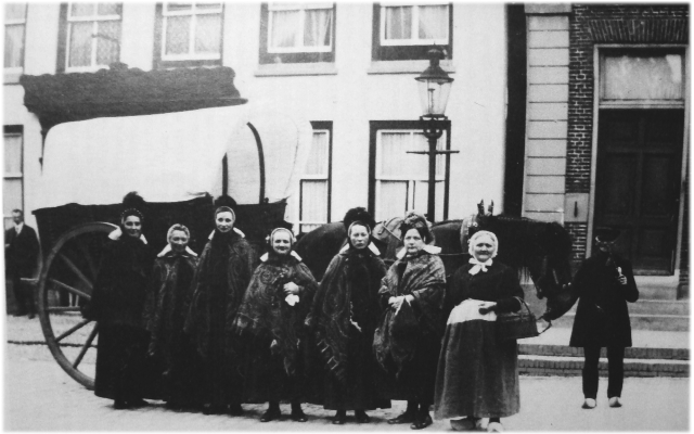 At the opening of the historic museum in 1930, the neighborwomans of the Rot acte de présence. The photo was made at the corner landstraat edge Köstersbülte (Markedsquare) Aalten